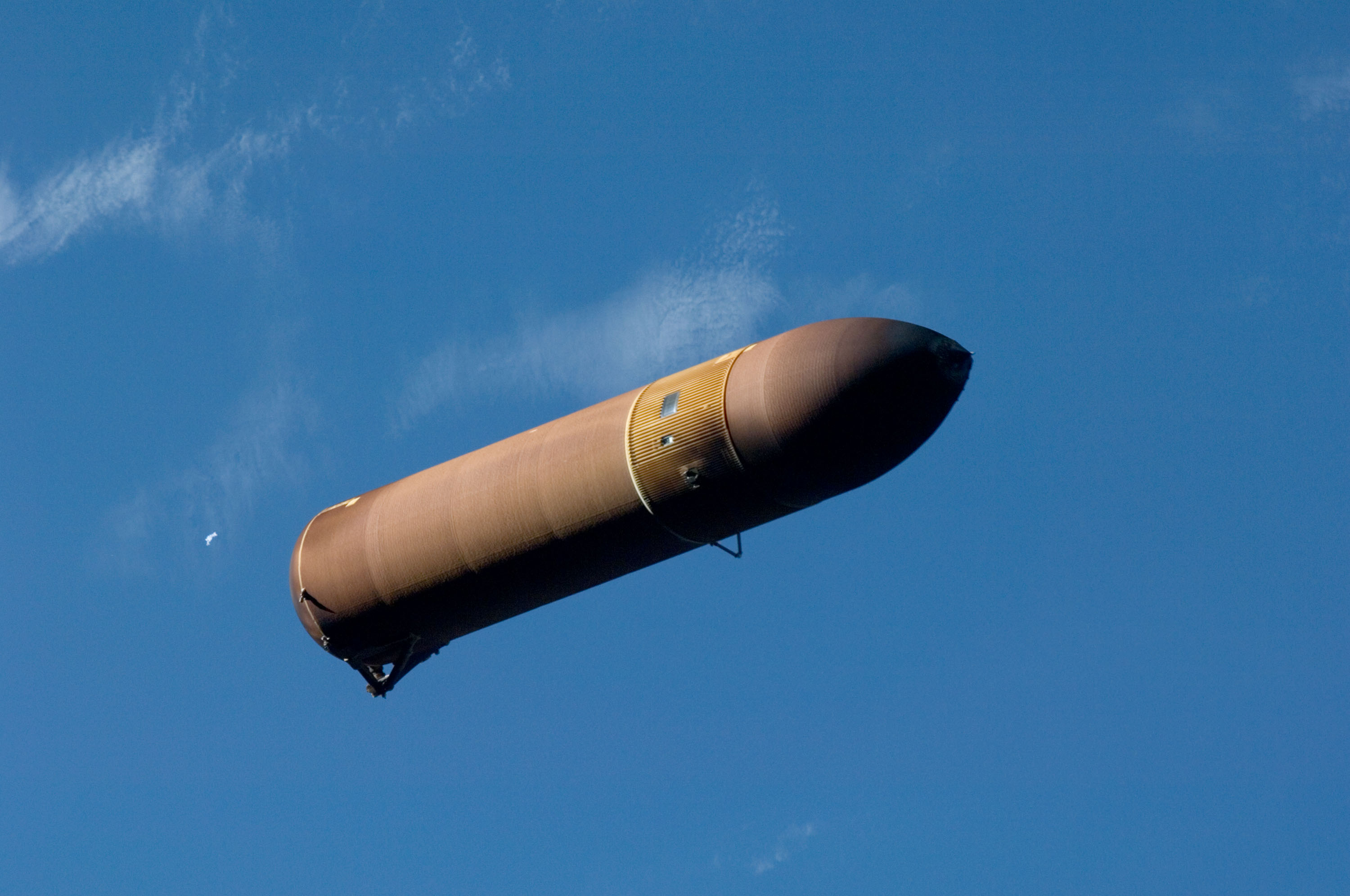 Space Shuttle Discovery's external fuel tank from STS-124, after separation. The blue background is Earth as viewed from the Shuttle.